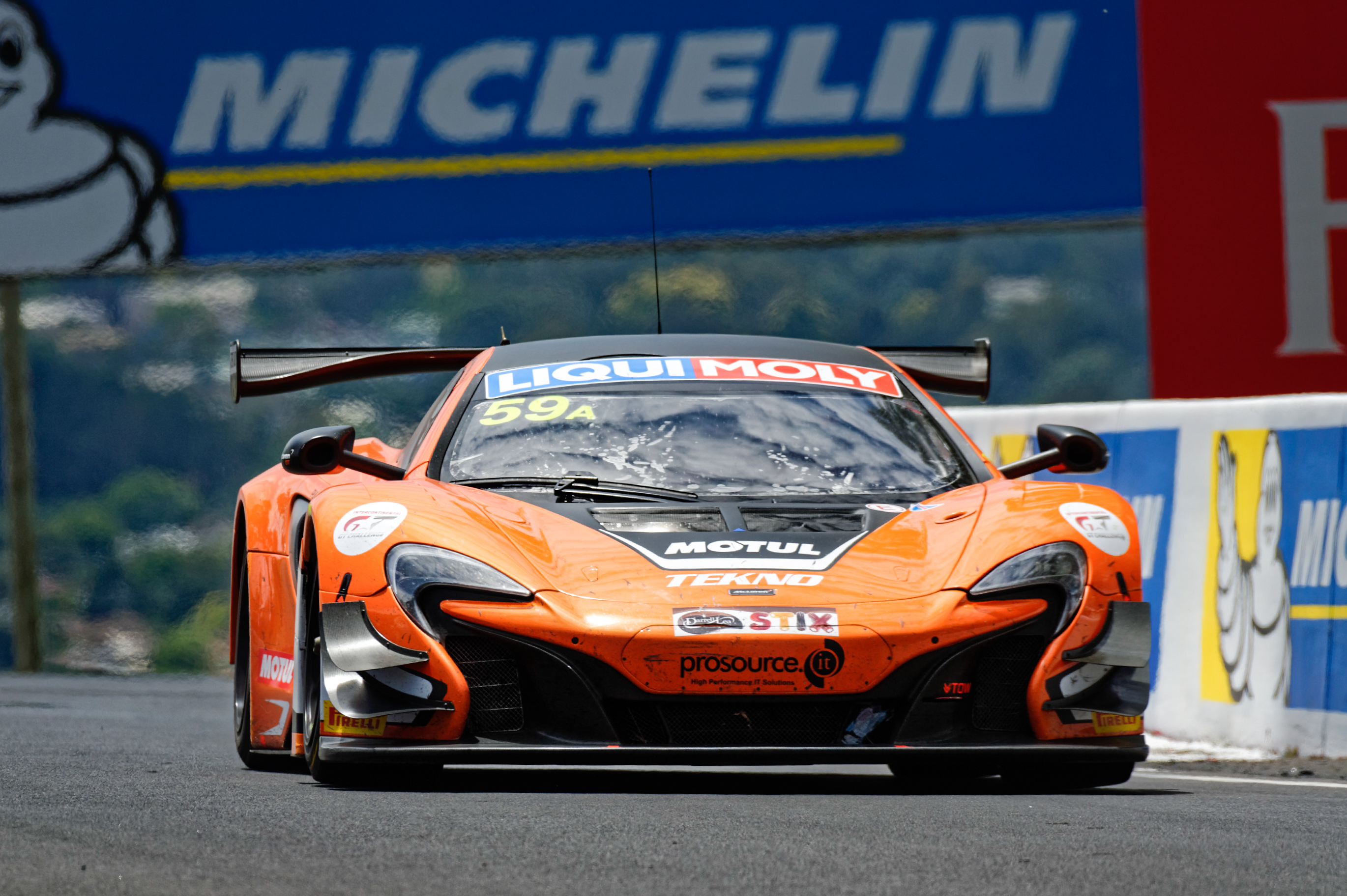 February 07, 2015 : No 59 Tekno Autosport – McLaren 650S GT3 driven by Shane van Gisbergen (NZL) / Alvaro Parente (POR) / Jonathan Webb during the Liqui-Moly Bathurst 12 Hour at the Mount Panorama Circuit in NSW, Australia. Tekno Autosport recorded the first win for McLaren at the Bathurst 12 Hour.